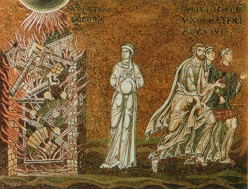 Sodom's destruction; Lot and daughters escapes